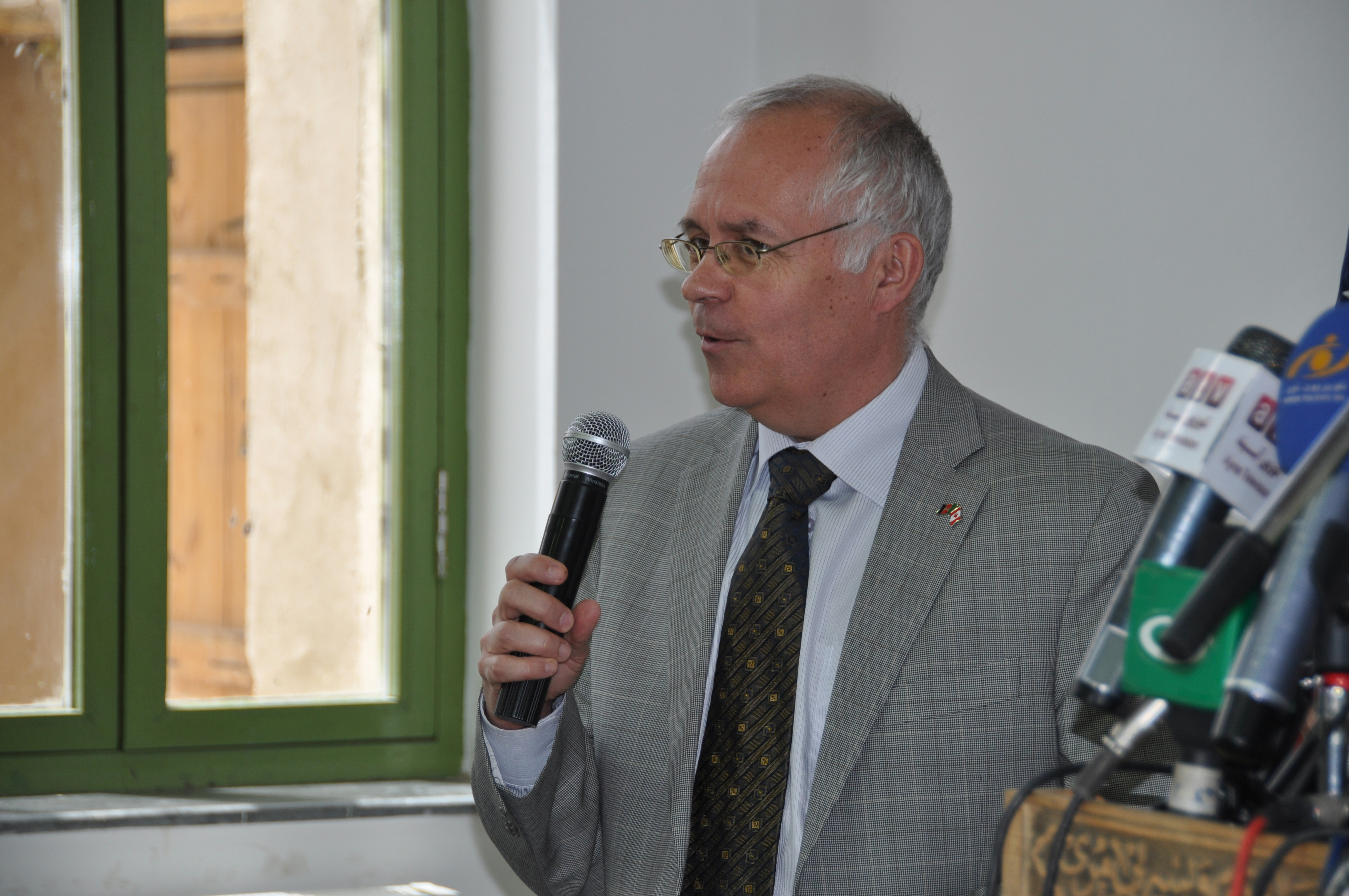 Canadian Ambassador William Crosbie makes remarks during the opening of the refurbished Turquoise Mountain Foundation in the heart of Kabul's Old City, Afghanistan, on Monday, May 09, 2011.